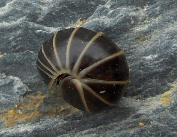 Glomeris marginata almost completely rolled up into a ball